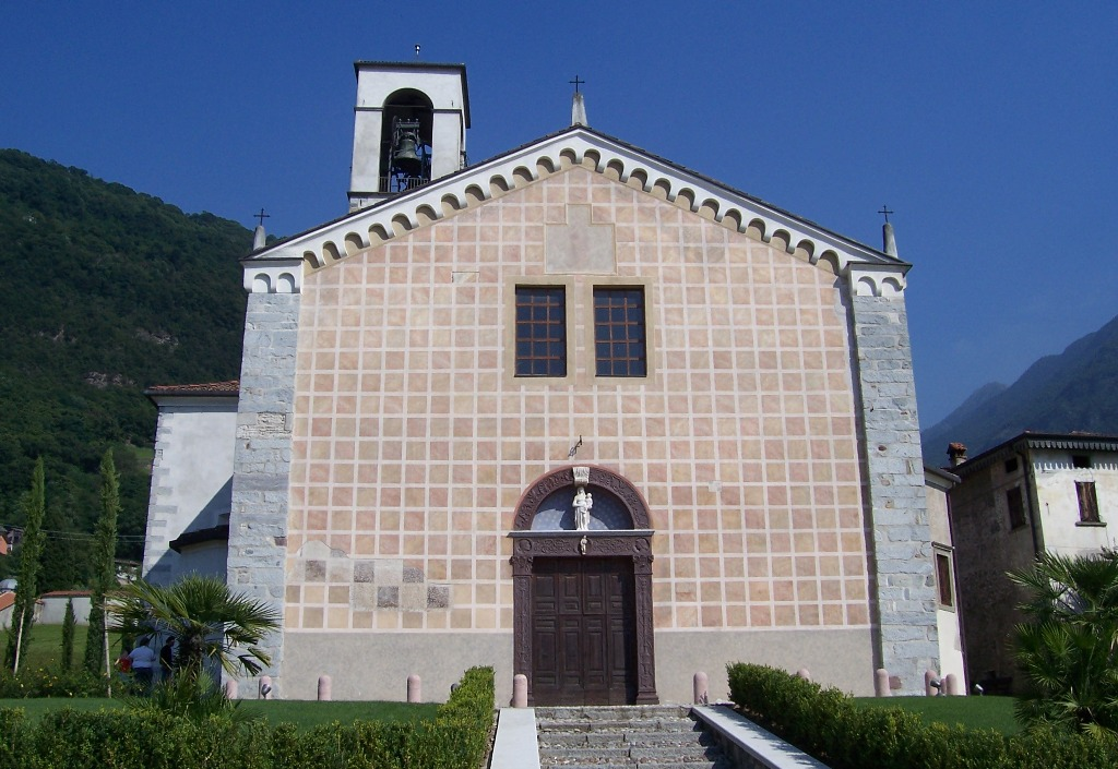 Pieve - St Mary in silvis, old plebis, Pisogne, Val Camonica